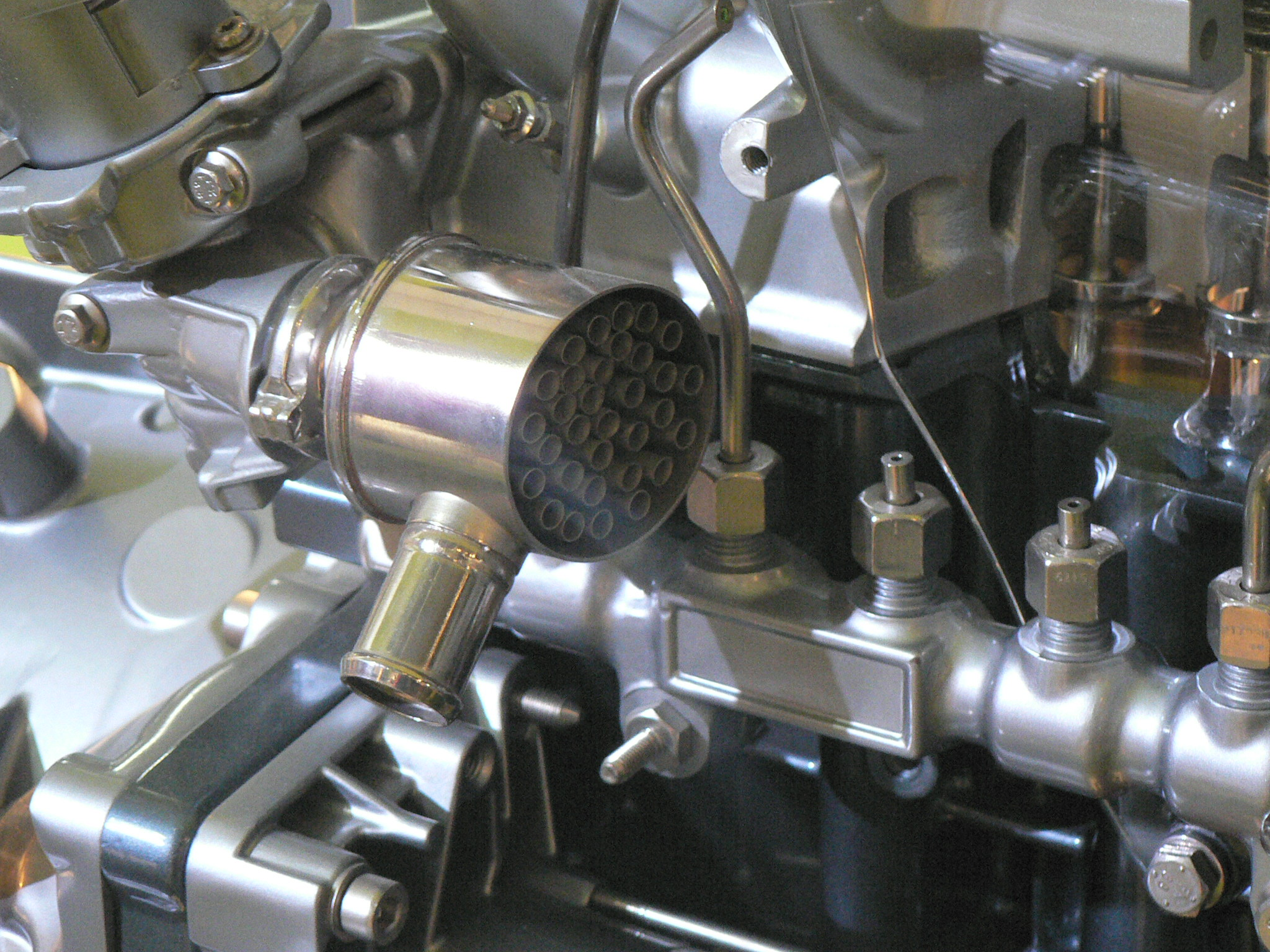 Mondial de l'automobile, Paris 2006EGR Cooler